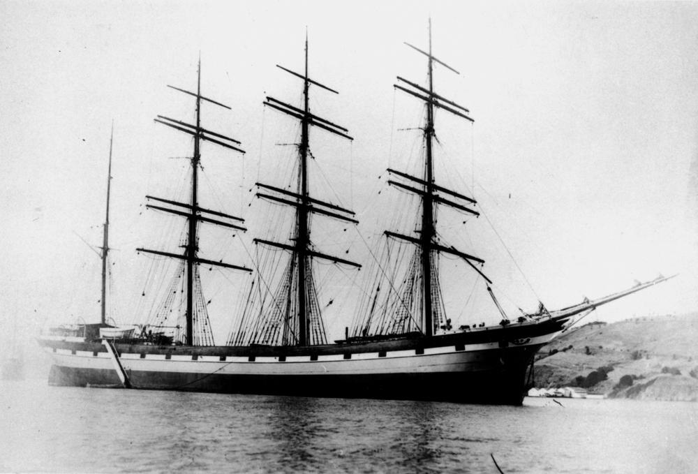 Moreton (ship)